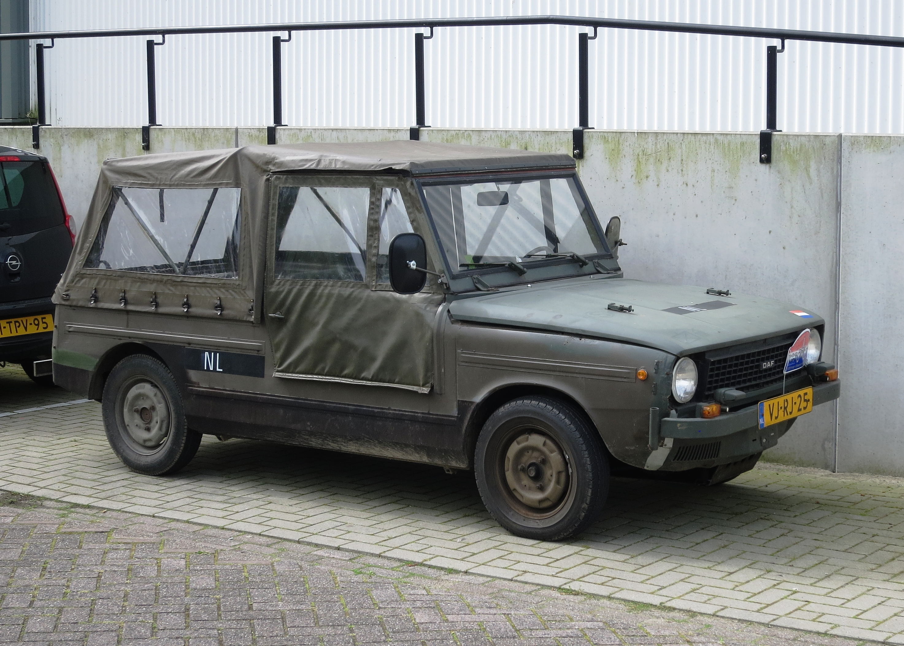 DAF YA-66 in Zeeland